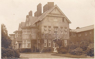 Postcard showing Shirley Isolation Hospital